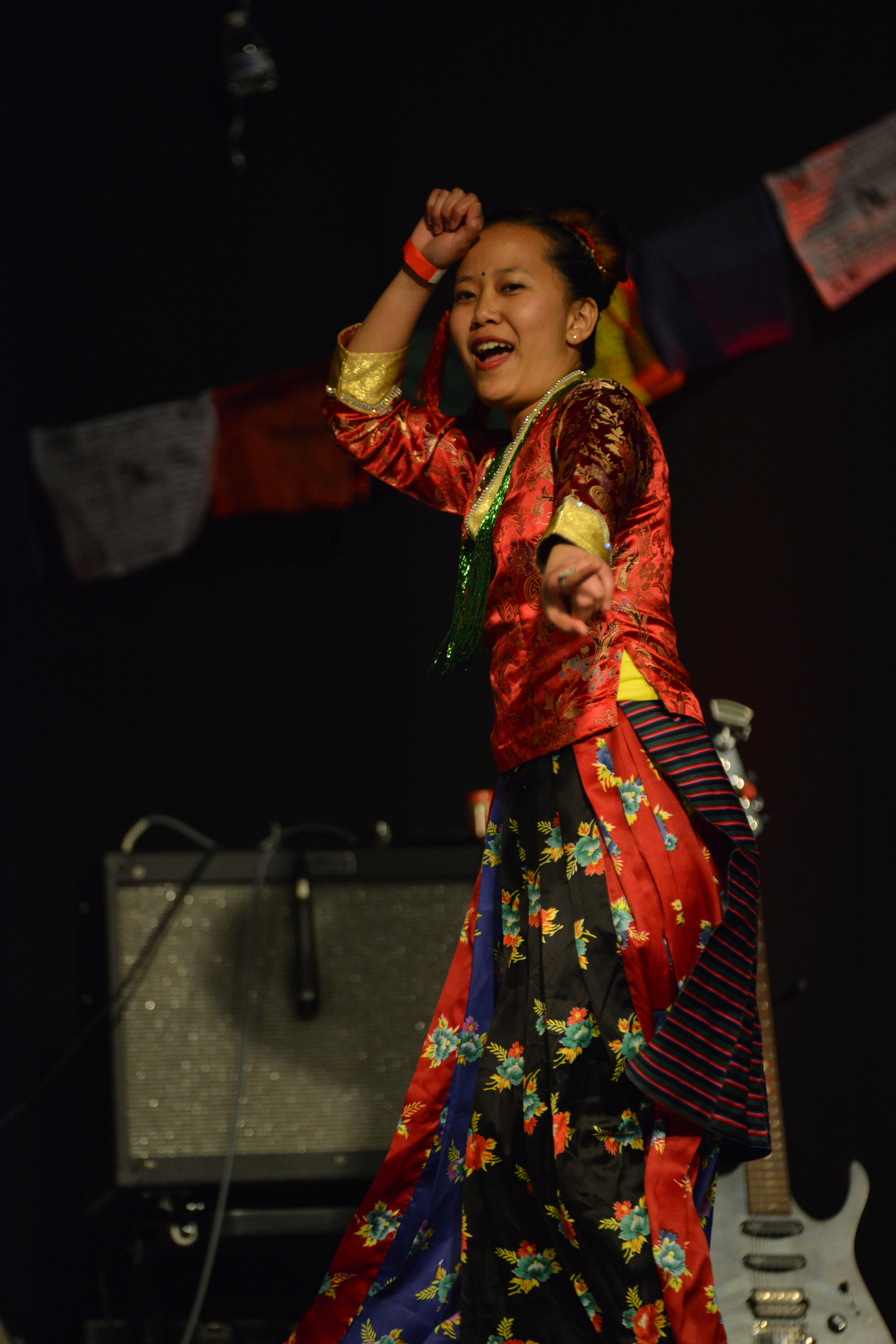 The Tamang Society of Greater Washington (TSGW) is a non profit making organization established for the welfare of Tamang community.